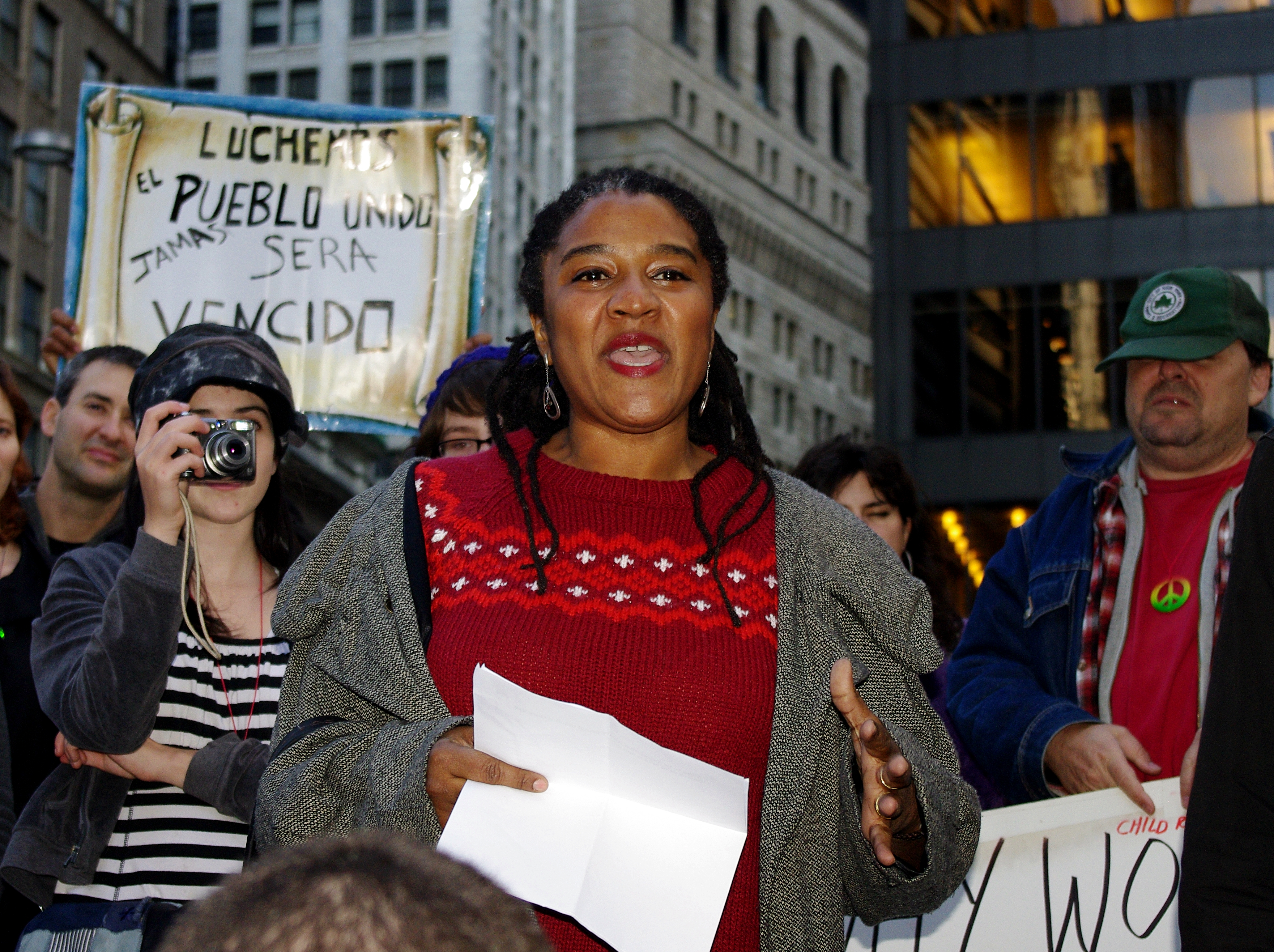 Lynn Nottage giving a reading at Occupy Wall Street.